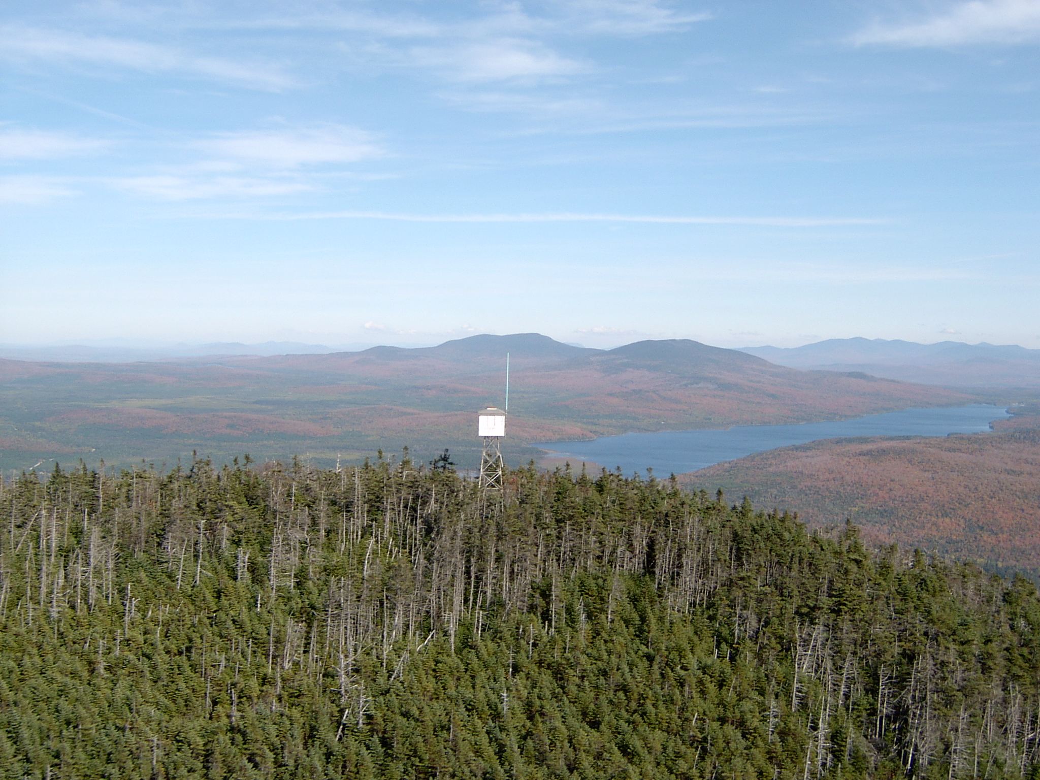 West Kennebago Mountain, Maine from the air looking Northeast